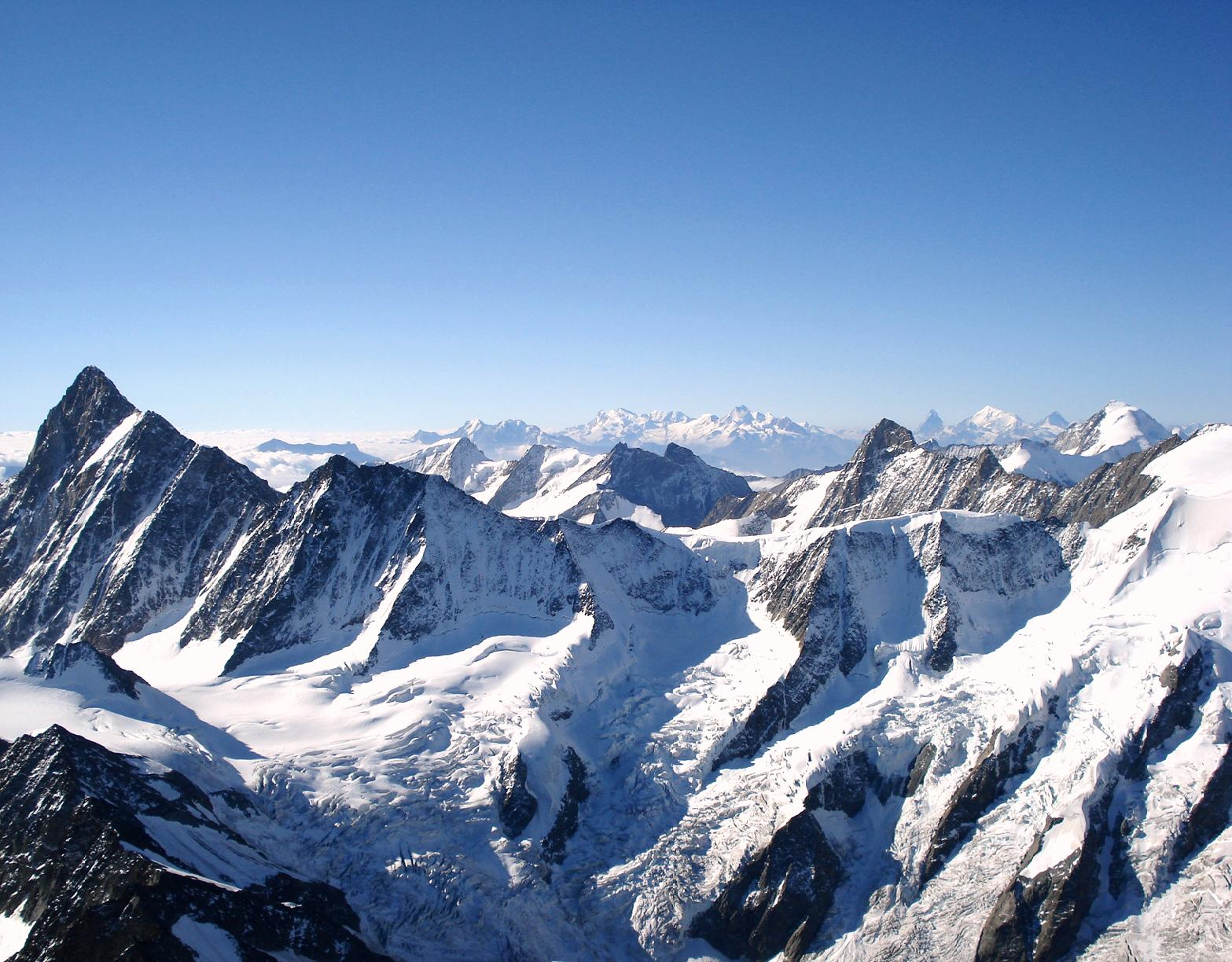 Aerial view of the Bernese Alps (foreground) and Valais Alps (background). The main summits visible on the photo from left to right are: foreground: Finsteraarhorn (4275m), Agassizhorn (3946m) and Fieschergrat. background: Dufourspitze (4634m), Dom of Mischabel (4545m), Matterhorn (4478m), Weisshorn (4506m), Dent Blanche (4350m).